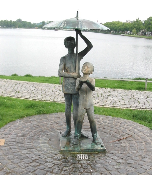 Sculpture Schirmkinder (umbrella children) by Stephan Horota at southern shore of Pfaffenteich in Schwerin, Mecklenburg-Vorpommern, Germany